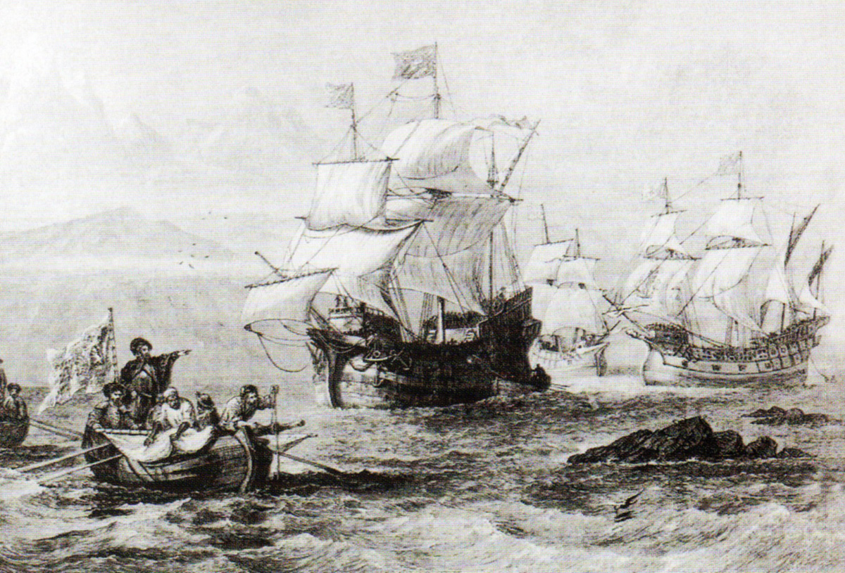 19th cent. image showing Magellan crossing the Straits